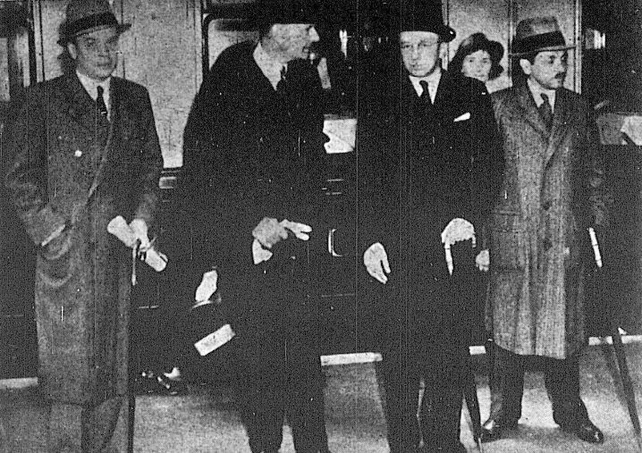 Polish ambassador the UK, Edward Raczyński and Adam Koc, the president of Polish National Bank.